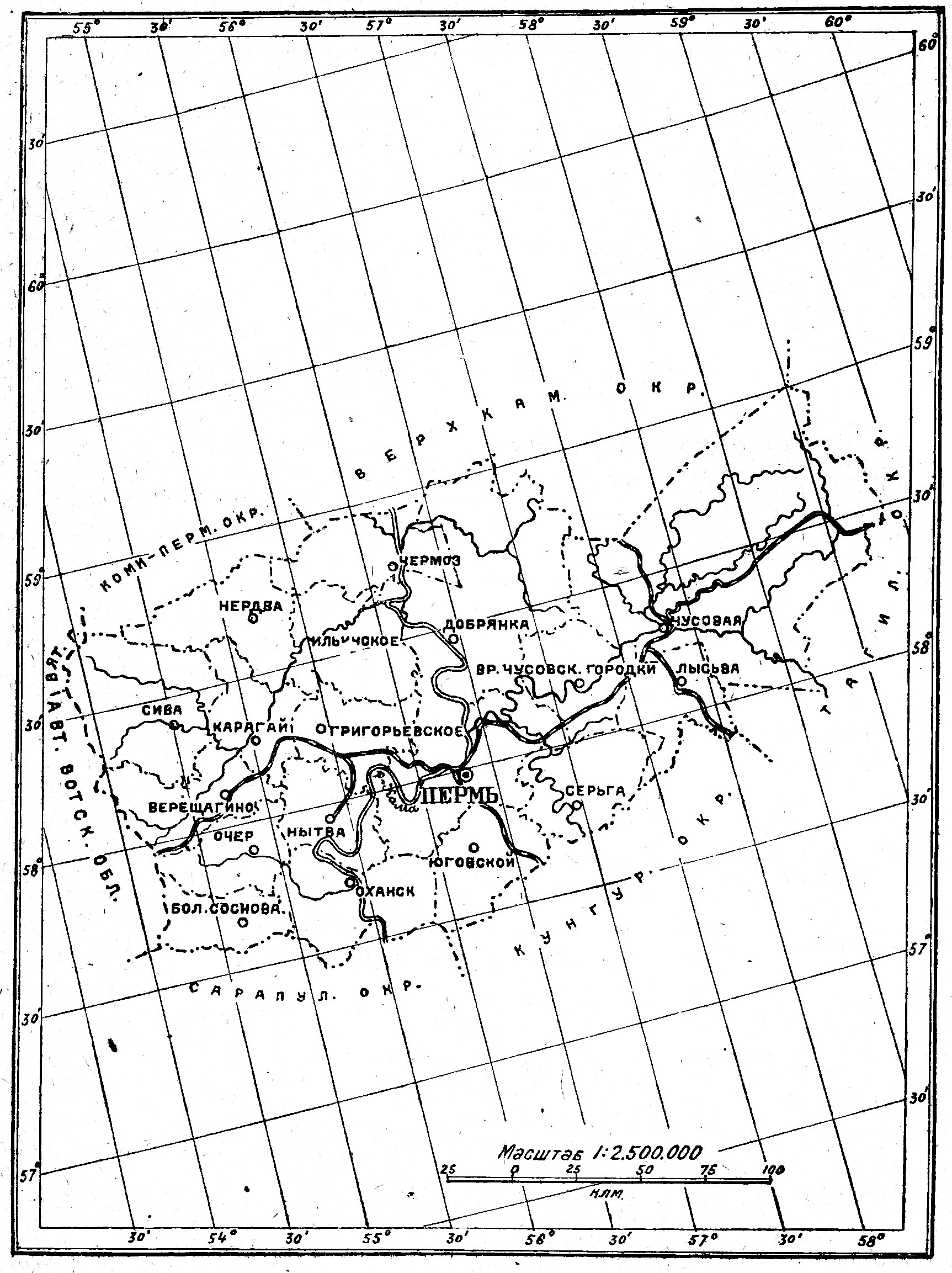 Map of Permskiy okrug of Uralic Region of RSFSR in 1928.